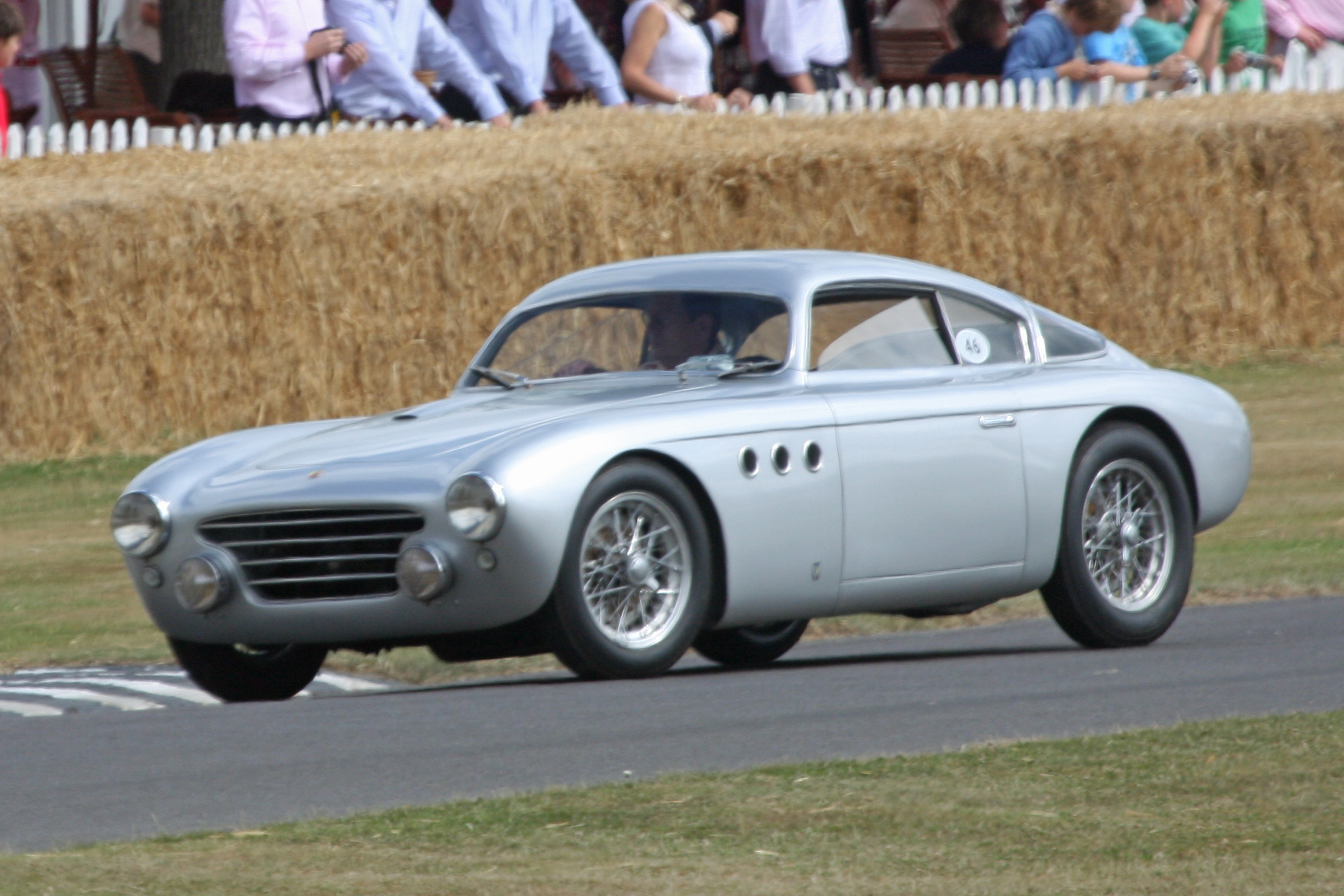 1950 Abarth 205 Monza